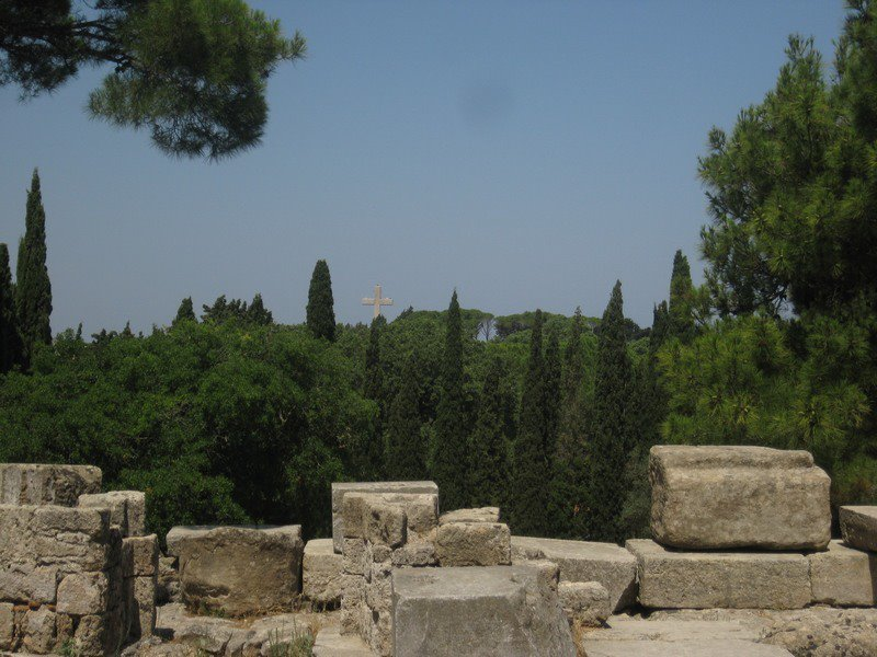 The Monastery of Filerimos in Rhodes Greece